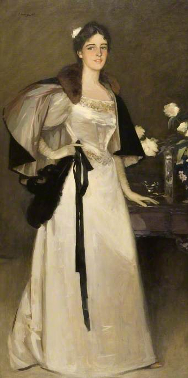 Джон Лавери (англ. John Lavery) (1856—1941) — ирландский художник, мастер портретной и пейзажной живописи. ================== Sir John Lavery RA (20 March 1856 – 10 January 1941) was an Irish painter best known for his portraits and wartime depictions.